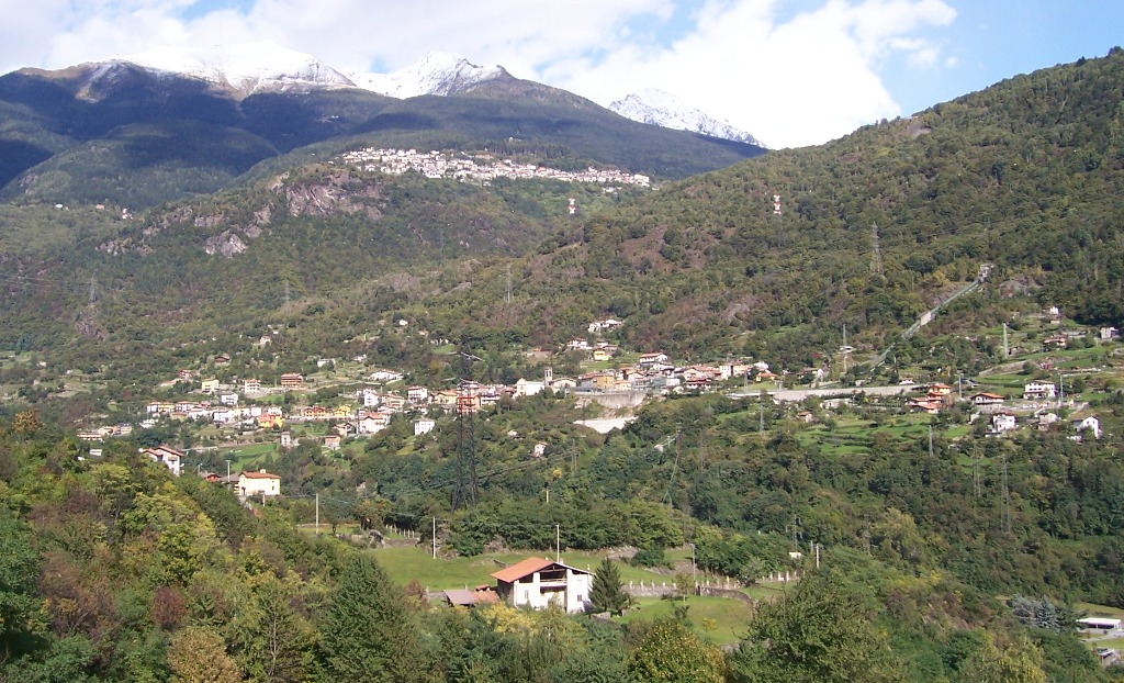 Grevo, Val Camonica